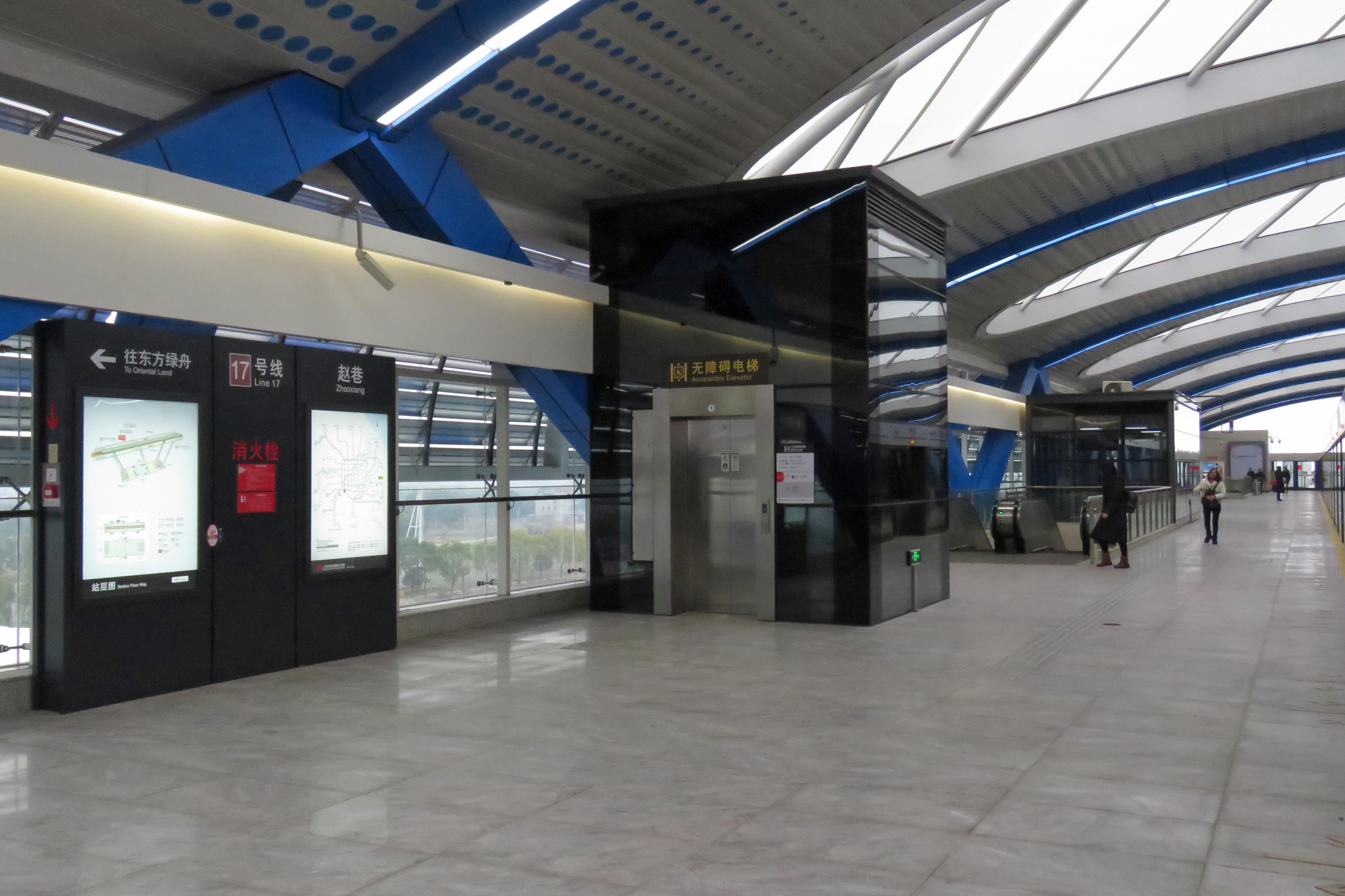 Photography station? Of course not...